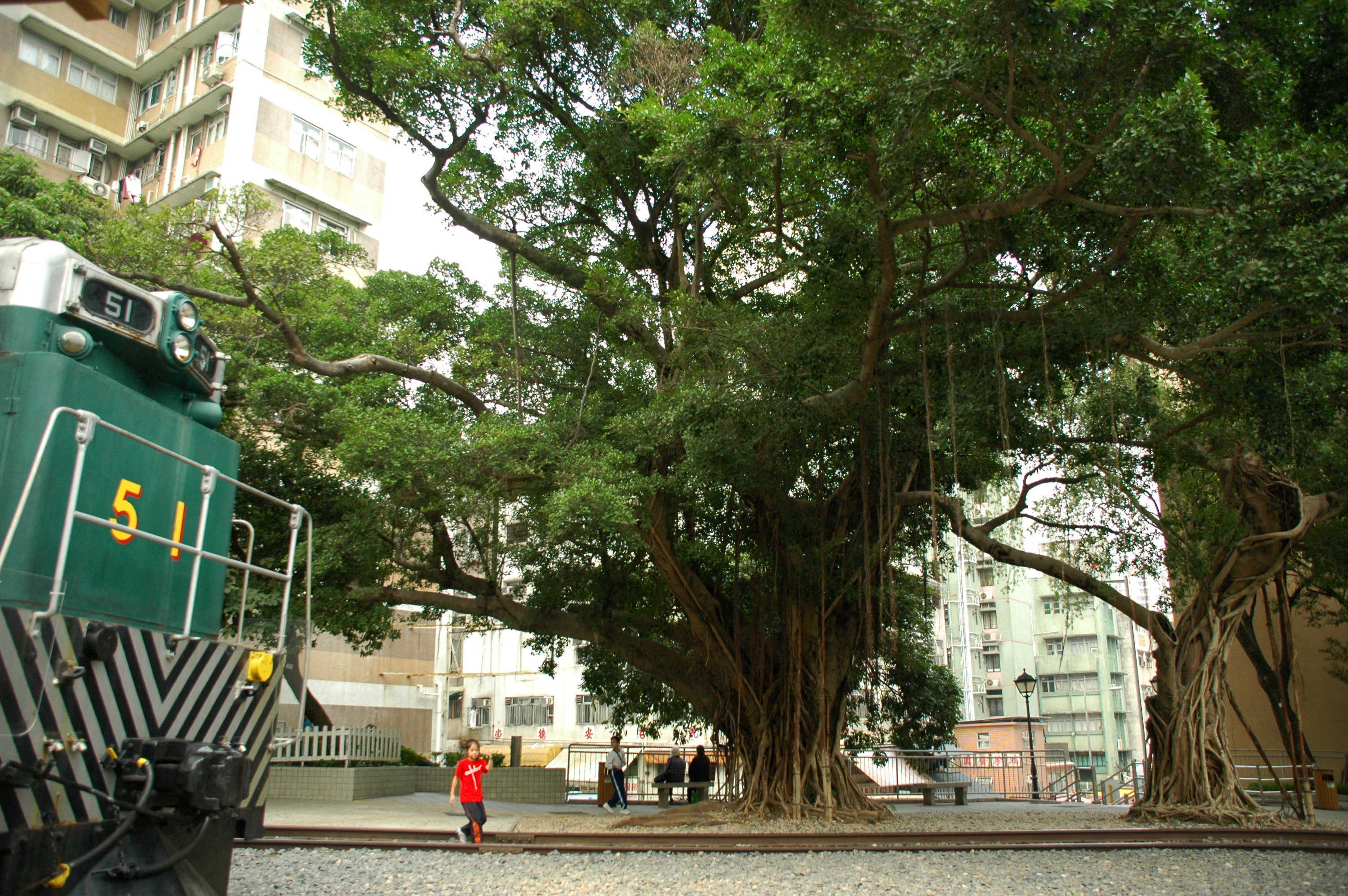 Ficus microcarpa (Old and Valuable Tree: LCSD TP/9 and LCSD TP/8) at the Hong Kong Railway Museum, Tai Po, New Territories, Hong Kong. The retired Sir Alexander diesel locomotive (#51) is on the left.